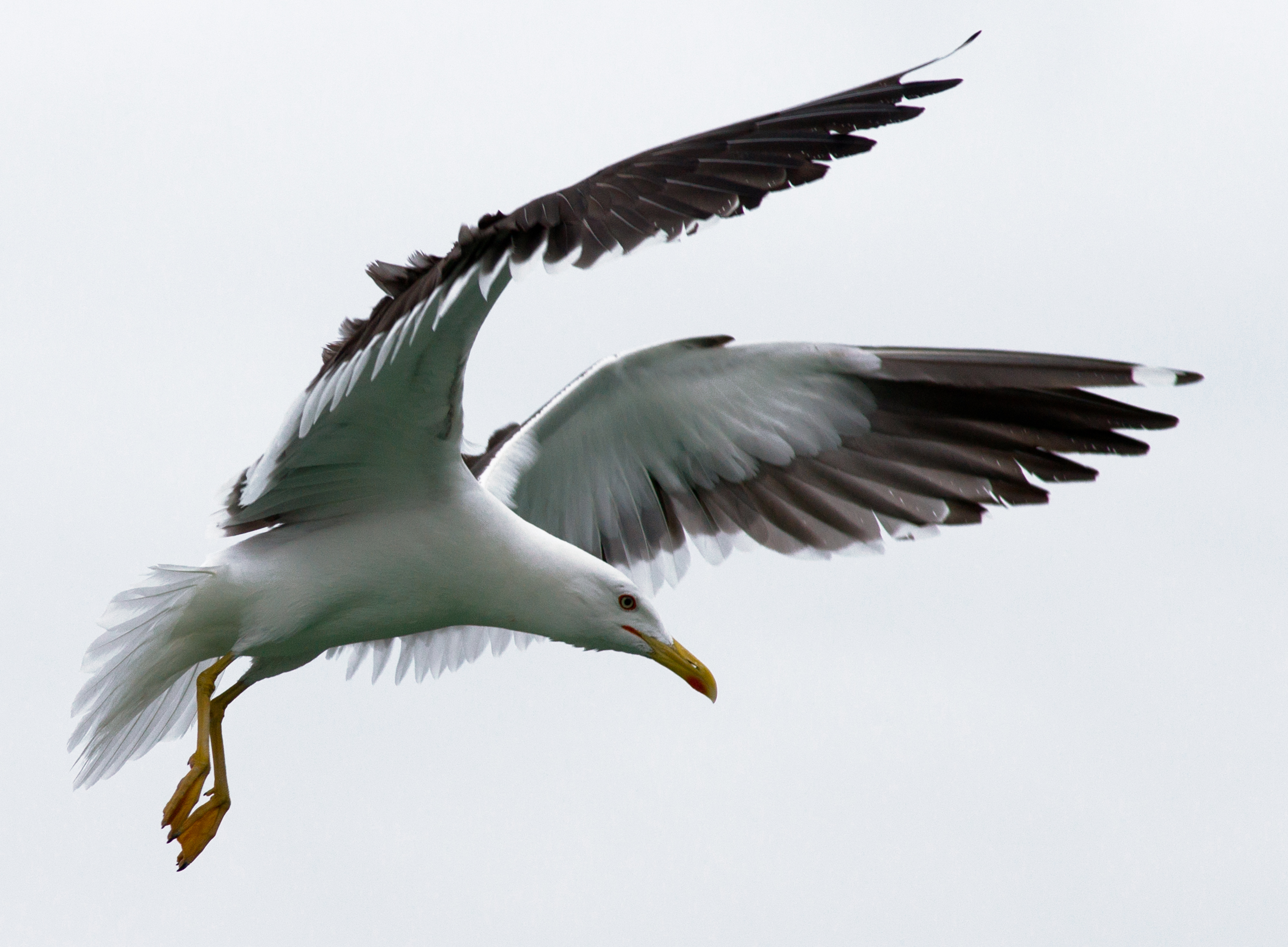 Lesser Black-backed Gull (Larus fuscus) in the Baltic Sea.